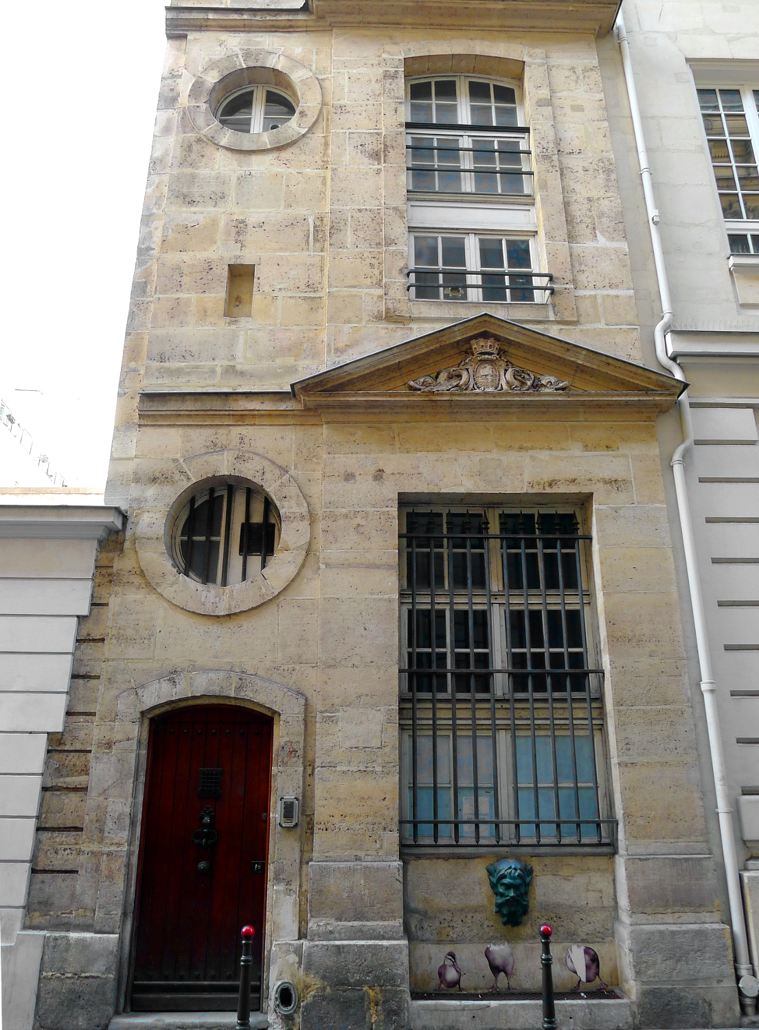 Colbert fountain - Paris